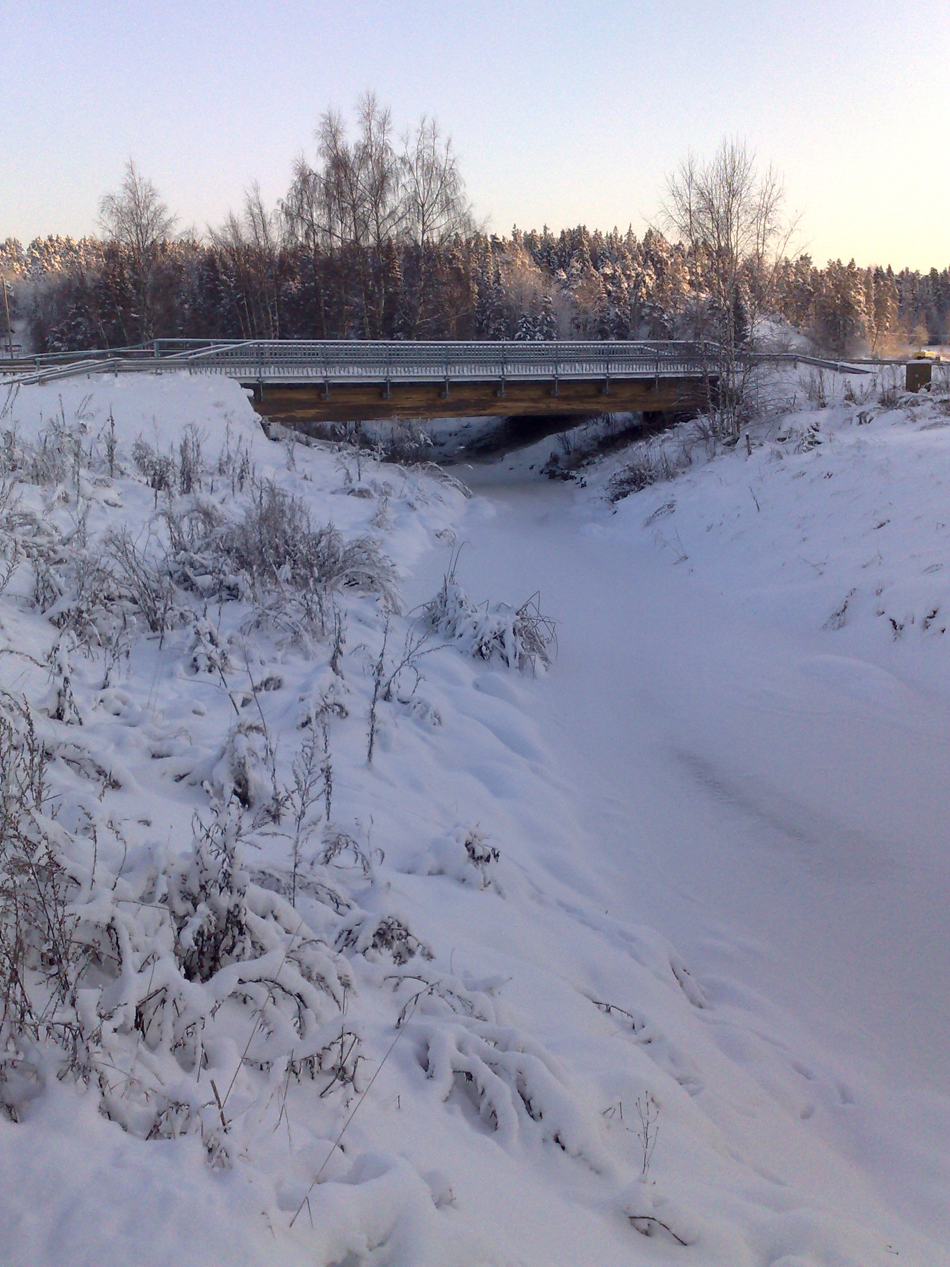 Maskunjoki is a river in Finland Proper, Finland. Its origin is in Vahto, and it flows into the Masku. It is a tributary of Hirvijoki. Temperature minus 15 degree Celsius.